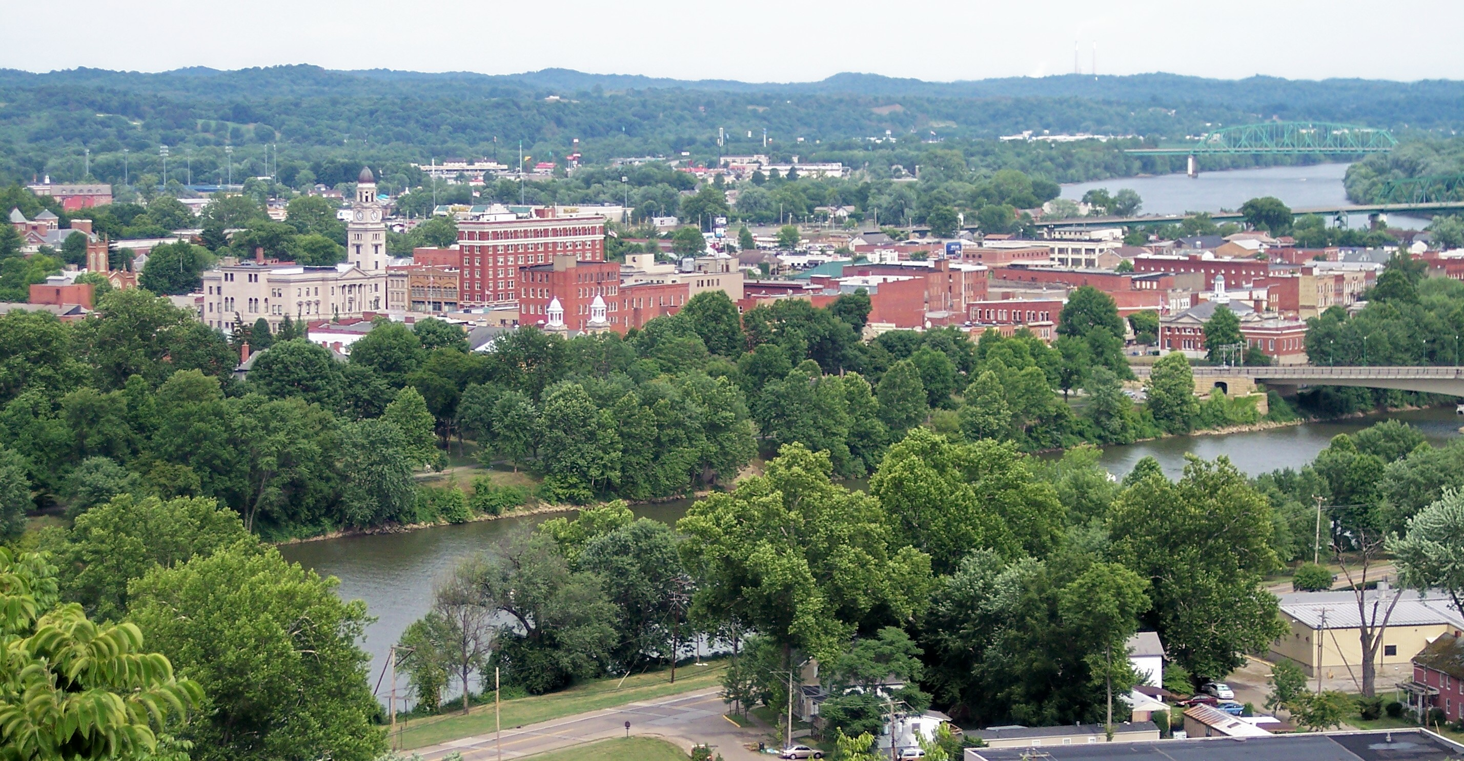 Downtown Marietta, Ohio, as viewed from Harmar Hill, including the Muskingum River (foreground) and the Ohio River (background right)